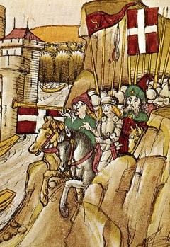 Peter II, Count of Savoy